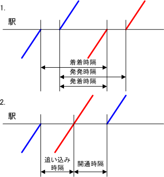 Explanation figure of various situations of train headway in a station, Japanese